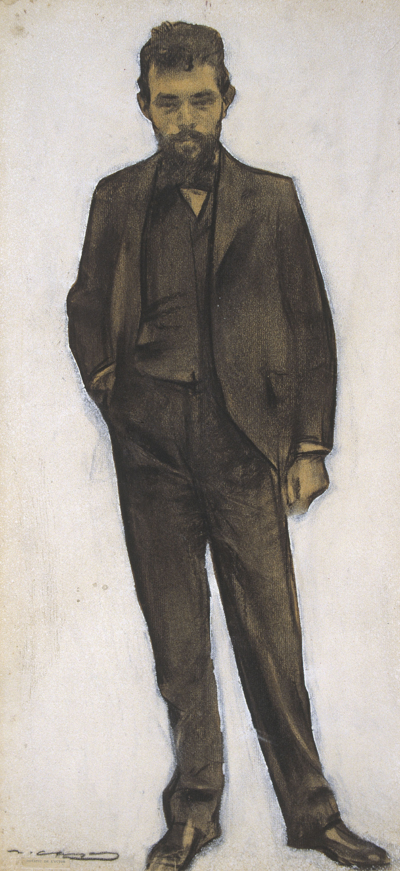 Portrait by Ramon Casas conserved at MNAC in Barcelona.